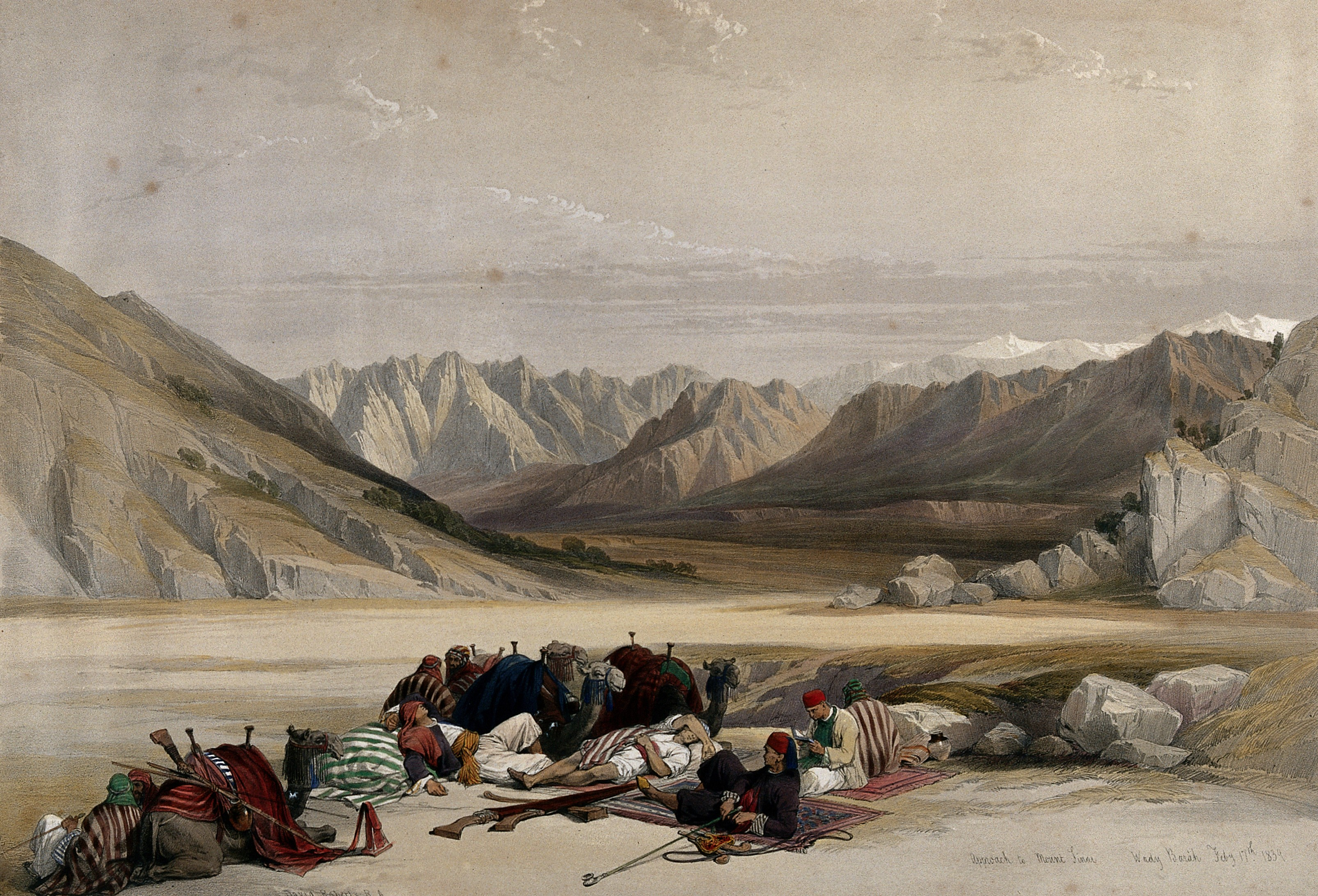 Camels and members of the artists' travelling party resting before the approach to Mount Sinai. Coloured lithograph by Louis Haghe after David Roberts, 1849. Iconographic Collections Keywords: David Roberts; Louis Haghe